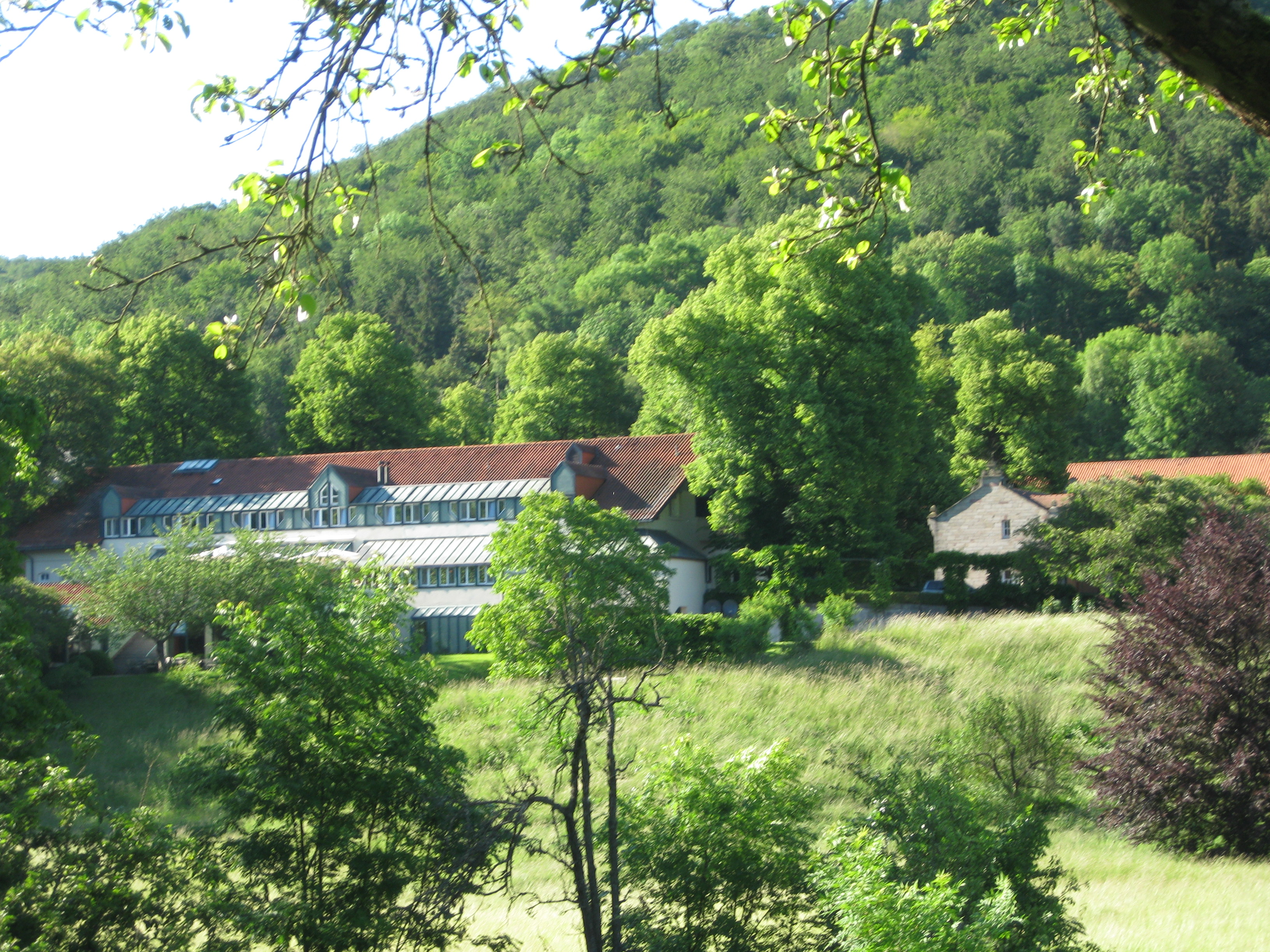 View through the Park of Hohenhaus manor, a valley of the Ringgau, in Holzhauen, a part of Herleshausen in Hesse.